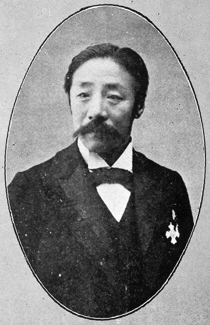 Yamada Matashichi